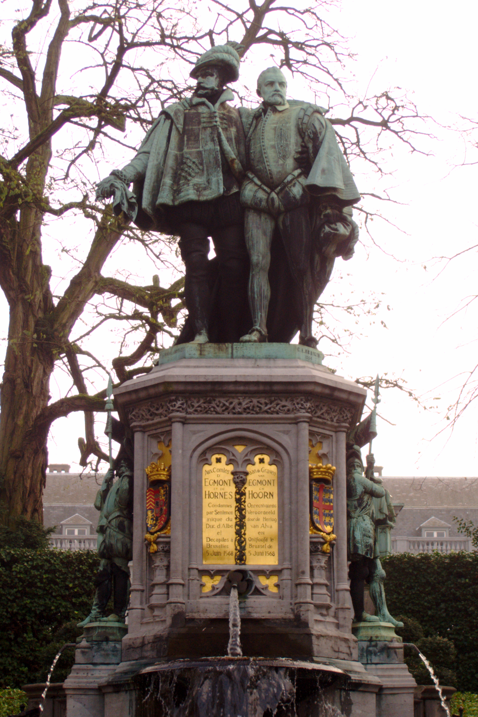 Statue of the Counts of Egmont and Hornes, on Petit Sablon, in front of the Egmont Palace in Brussels.